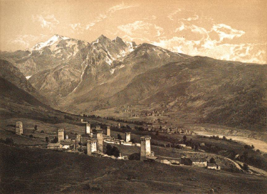 Mulakhi and Mujali communities in Svaneti (Bernoville, 1875)